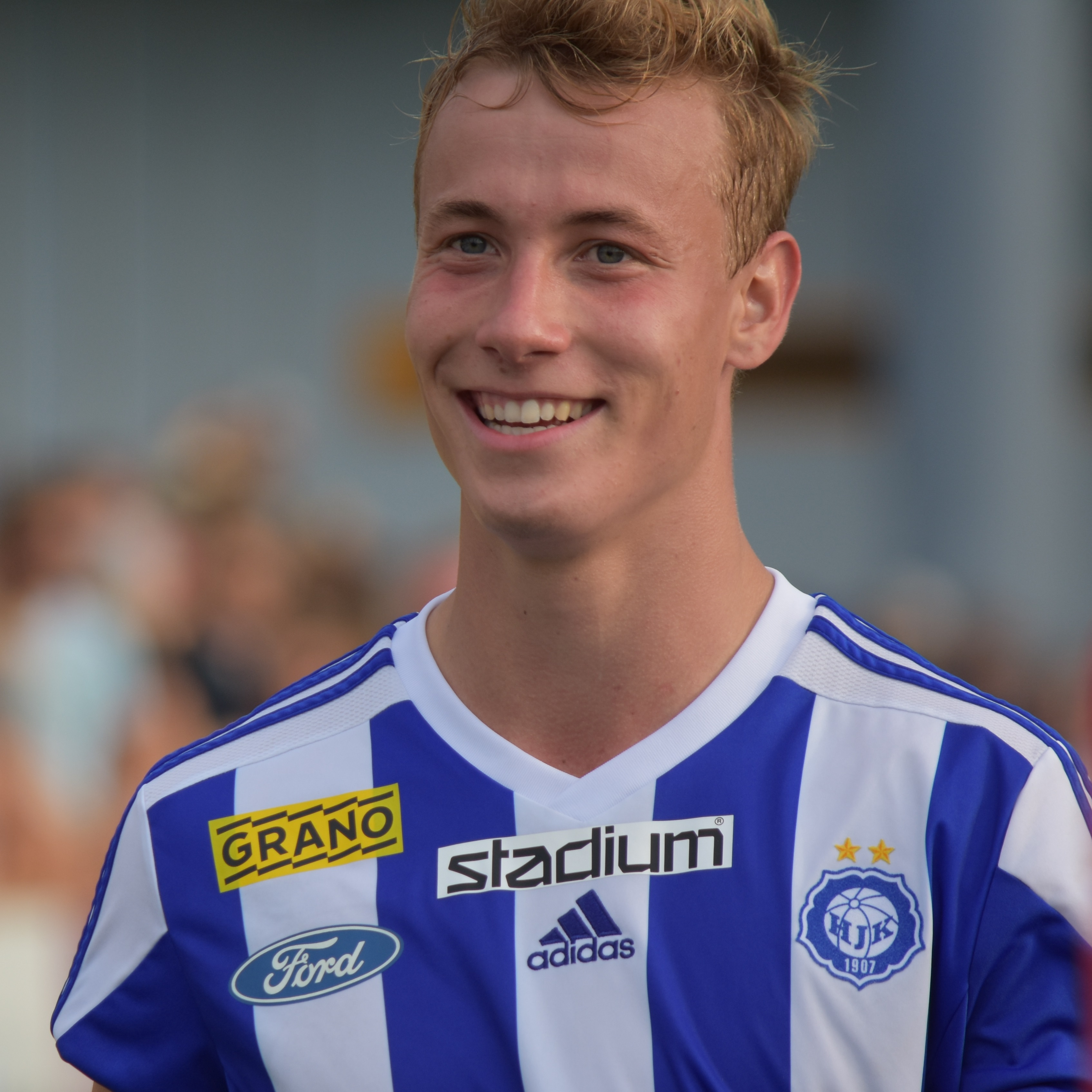 Association football player Eetu Vertainen (HJK)